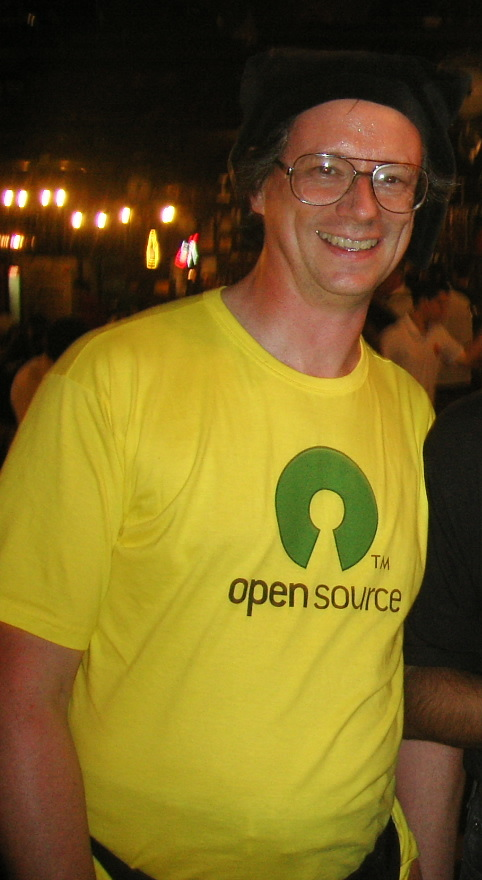 Founder and former president of Open Source Initiative, Russ Nelson.